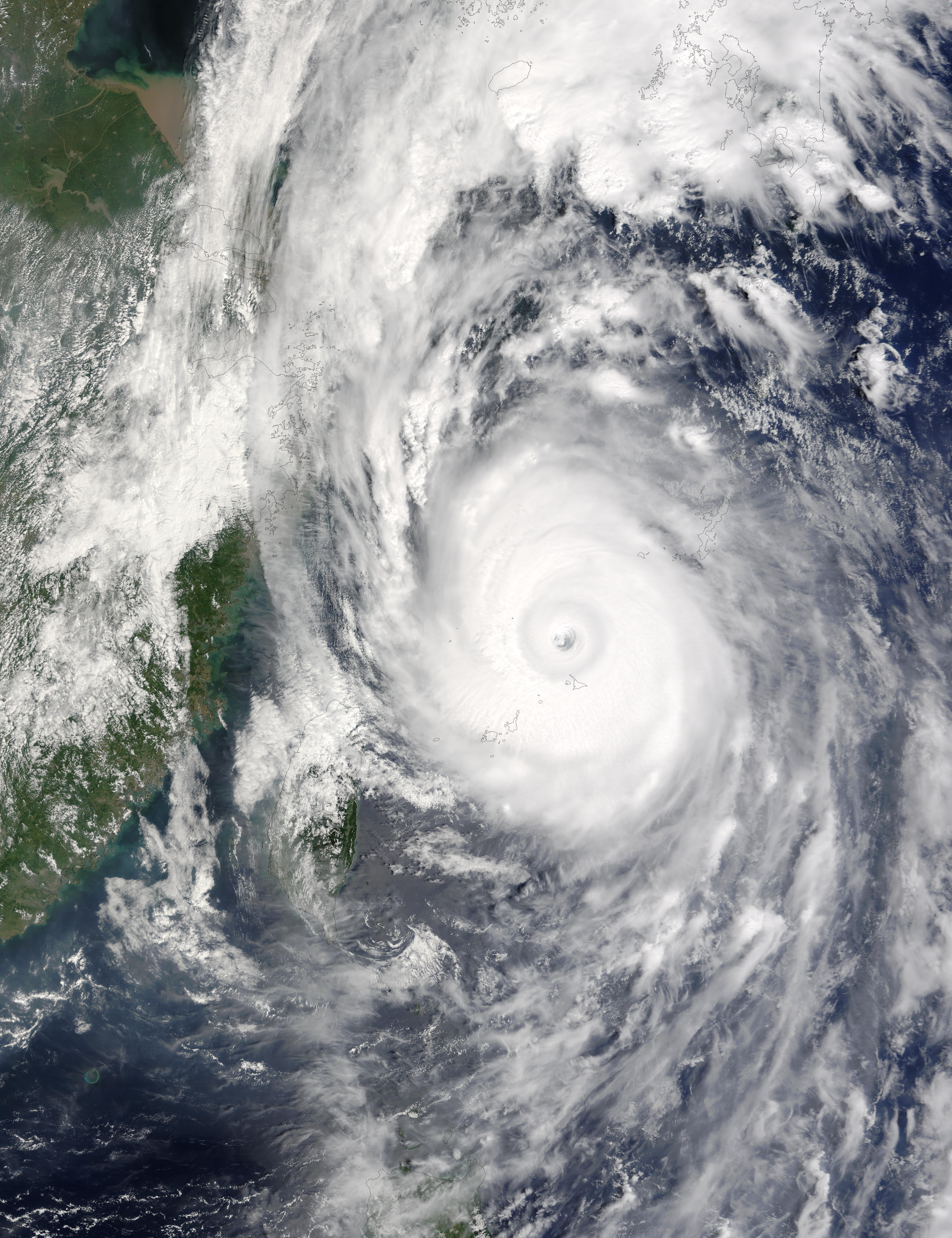 The Moderate Resolution Imaging Spectroradiometer (MODIS) on NASA’s Terra satellite captured this true-color image of Typhoon Maemi after it passed over Japan’s Okinawan Islands on September 11, 2003. Even though its sustained wind speed had dropped to 123 miles per hour, Typhoon Maemi was the strongest typhoon to hit the islands in 30 years, according Japan’s Central Meteorological Agency. News reports claimed that one person died and at least 94 others were injured in the storm. The hardest hit island was Miyakojima, 1145 miles southwest of Tokyo. Typhoon Maemi was moving north towards the Korean peninsula at about 7 miles per hour when this image was taken. Maemi is the Korean name for a cicada that legend says chirps madly to warn of a coming typhoon.